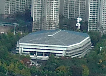 View from COEX Tower